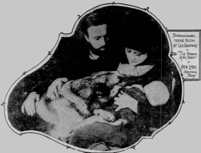 Newspaper advertisement for the American film Brawn of the North (1922) with Lee Shumway, Irene Rich, and Strongheart the Dog, overlapping ads for other films removed from image, on page 15 of the November 18, 1922 Duluth Herald.